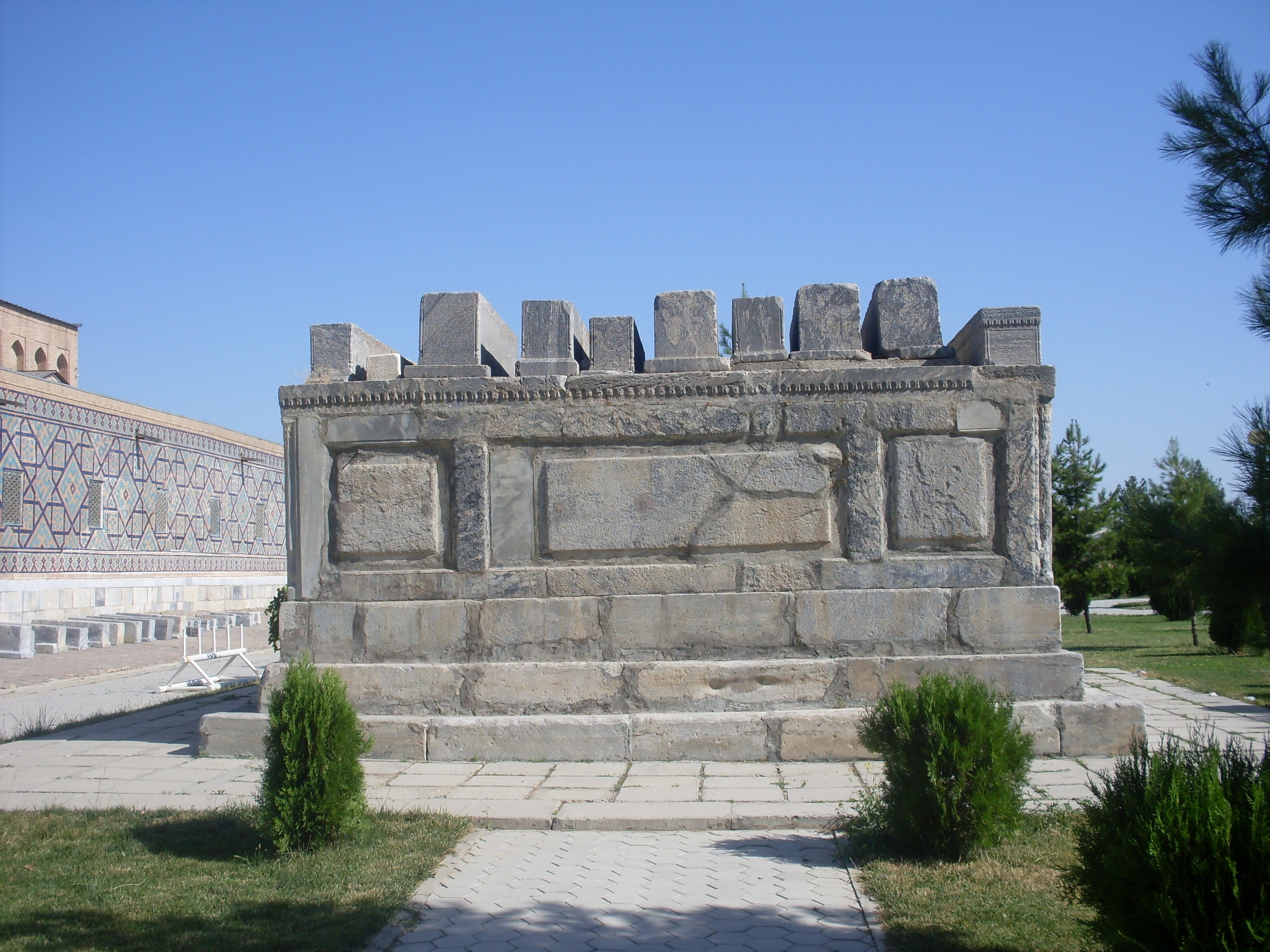 Street Tashkent mausoleum Sheibanids